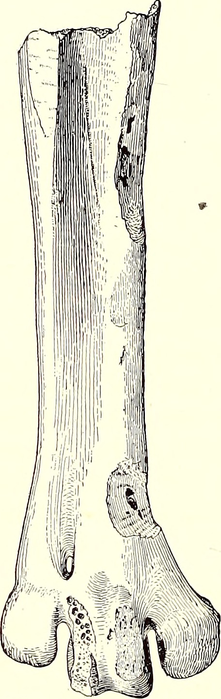 UCMP 9834, the holotype specimen of Gymnogyps amplus MILLER 1911 (Aves: Cathartidae), the distal portion of a right tarsometatarsus from the Pleistocene of Samwel Cave near Shasta Lake, dorsal face.